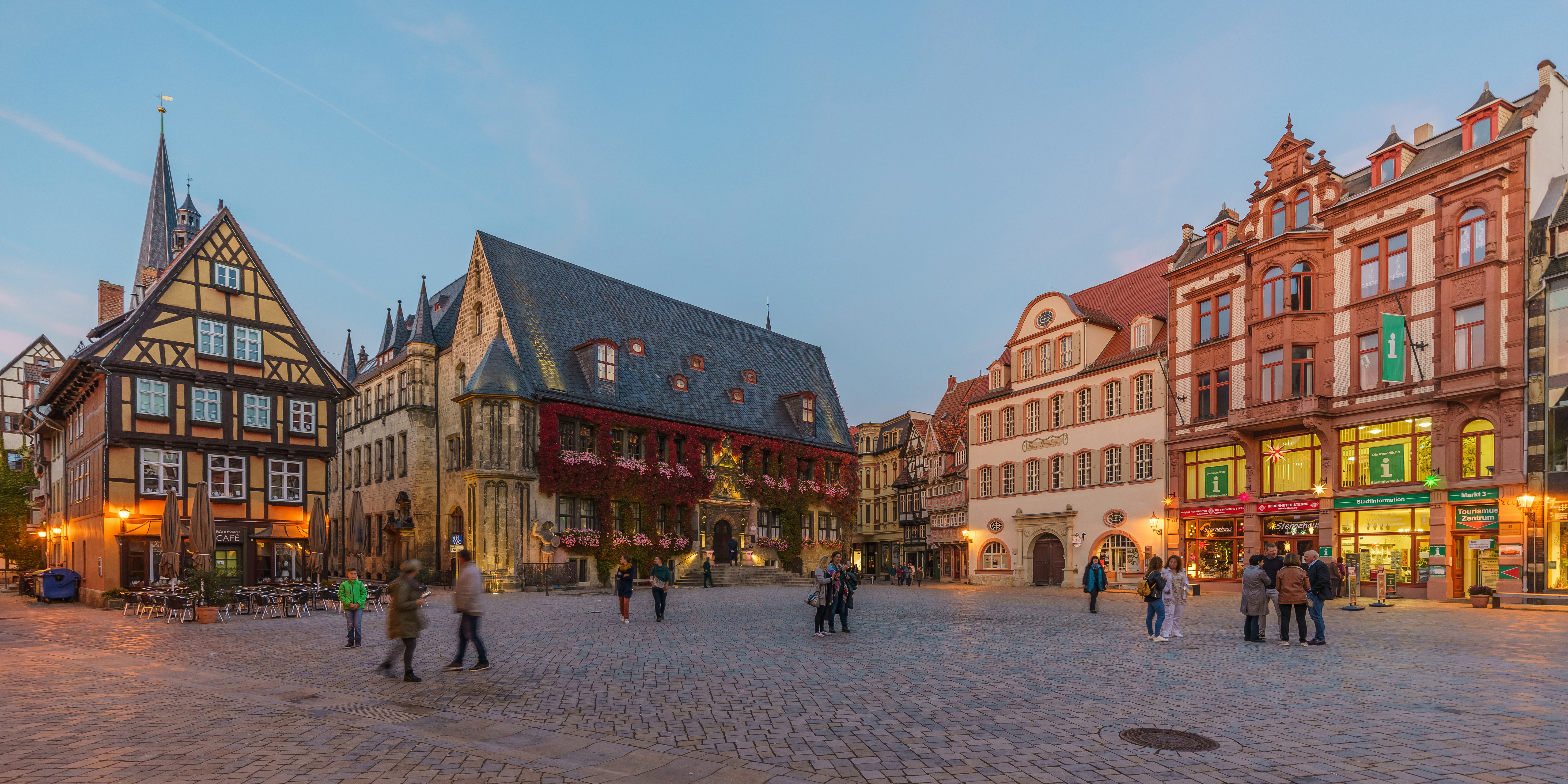 Market Square in the Old Town in Quedlinburg, Germany